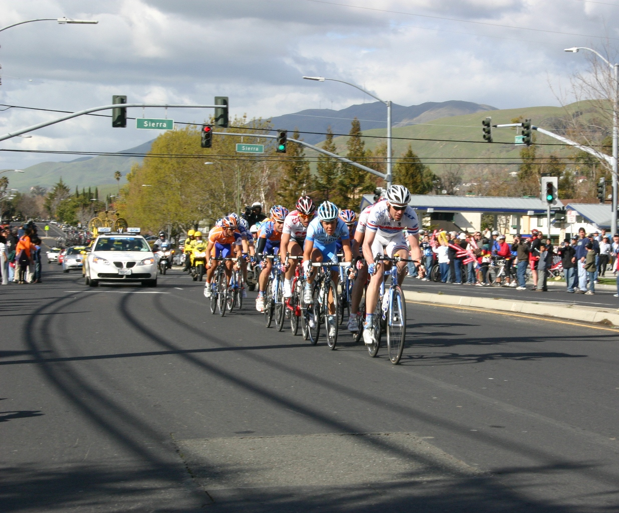 David Millar leading the chase at the end of Stage 3 of the 2008 Tour of California